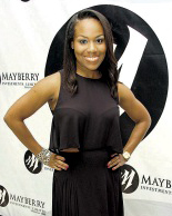 Shanique Palmer at Mayberry Investments' annual client holiday party in 2014.